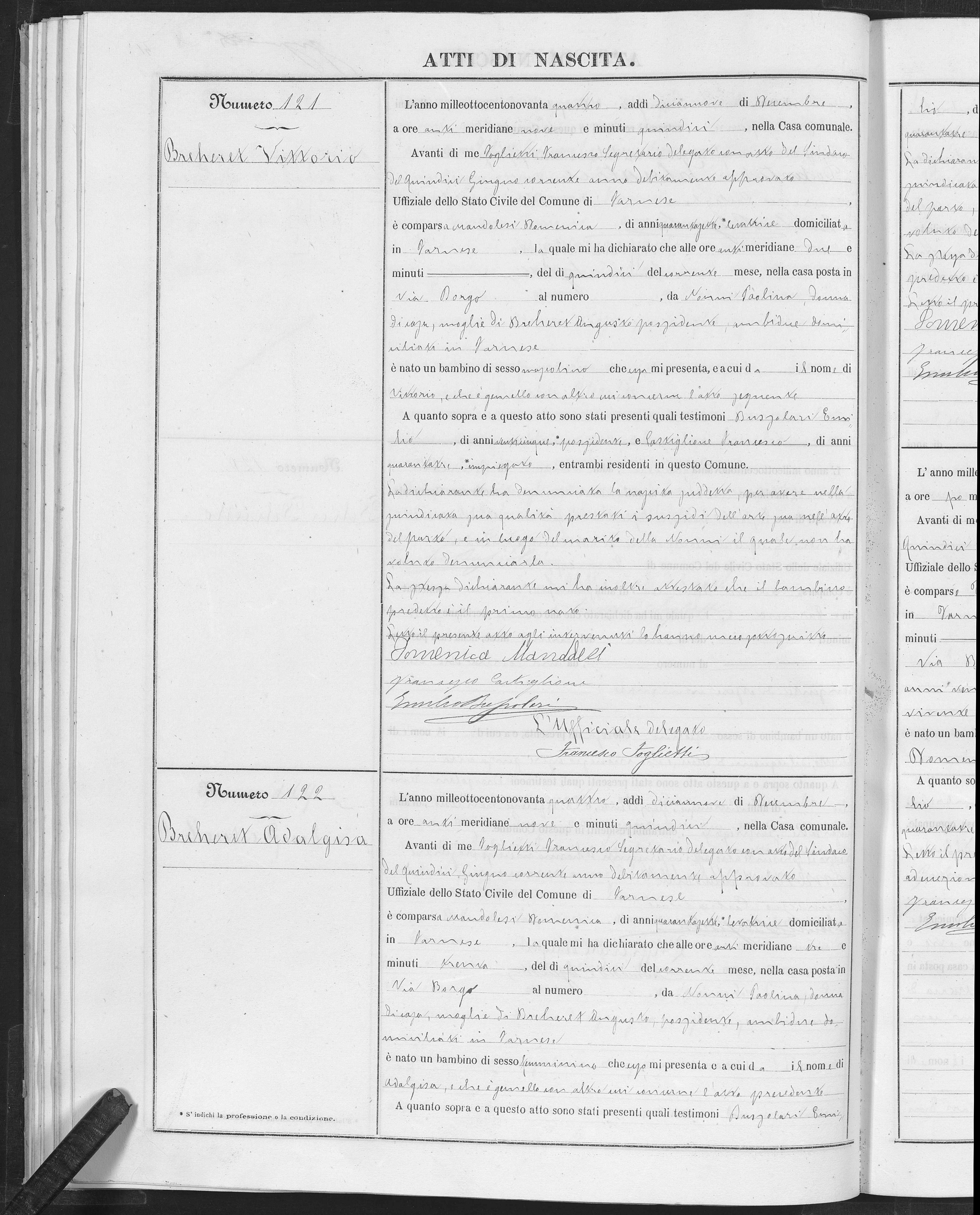 Birth record of the Italian-Brazilian sculptor Victor Brecheret, born Vittorio Breheret in Farnese, Viterbo, Italy, December 15th, 1894.